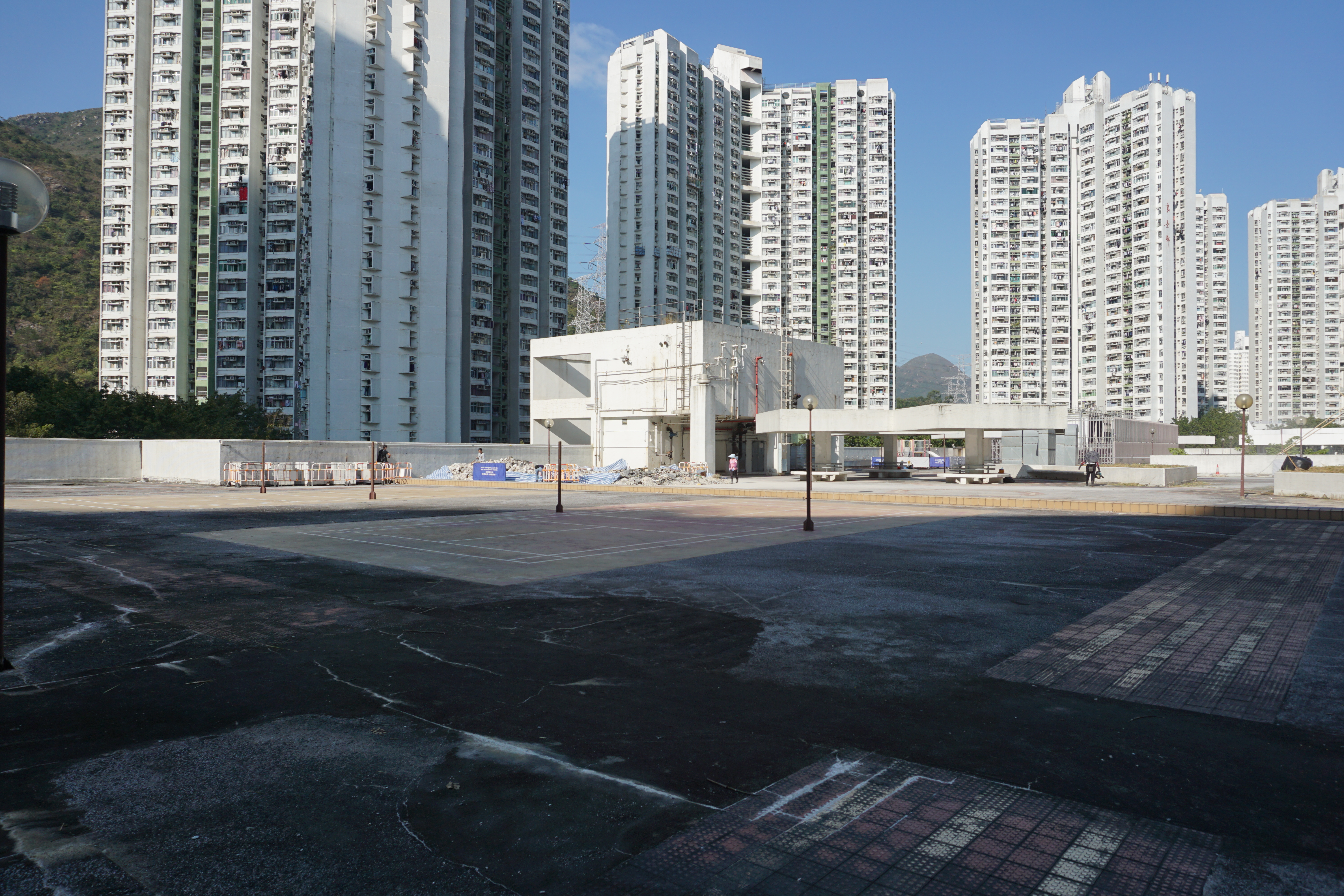 Leung King Estate in Tuen Mun, Hong Kong.